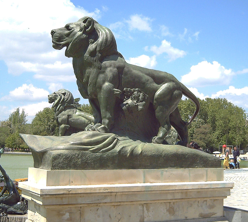 Sculpture of a lion by Agapit Vallmitjana Abarca (1850–1915). It's one of the four lions at the terraces of the monument to Alfonso XII of Spain, in the Retiro Park (Jardines del Buen Retiro) in Madrid, built from 1902 to 1922. The lions were originally of stone, but due to their deterioration they were replaced by bronze copies in year 2000.